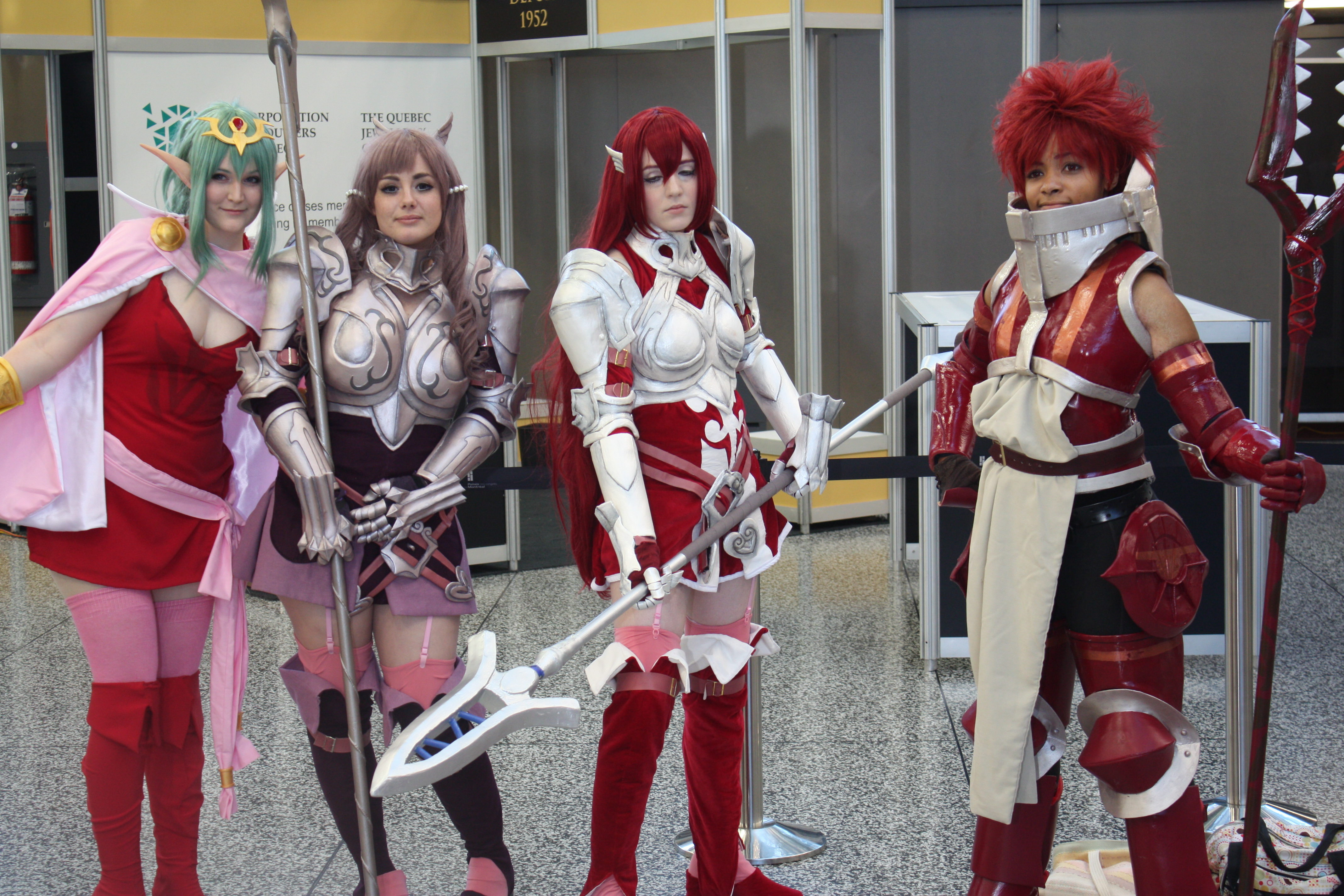 Otakuthon 2014: Fire Emblem Awakening